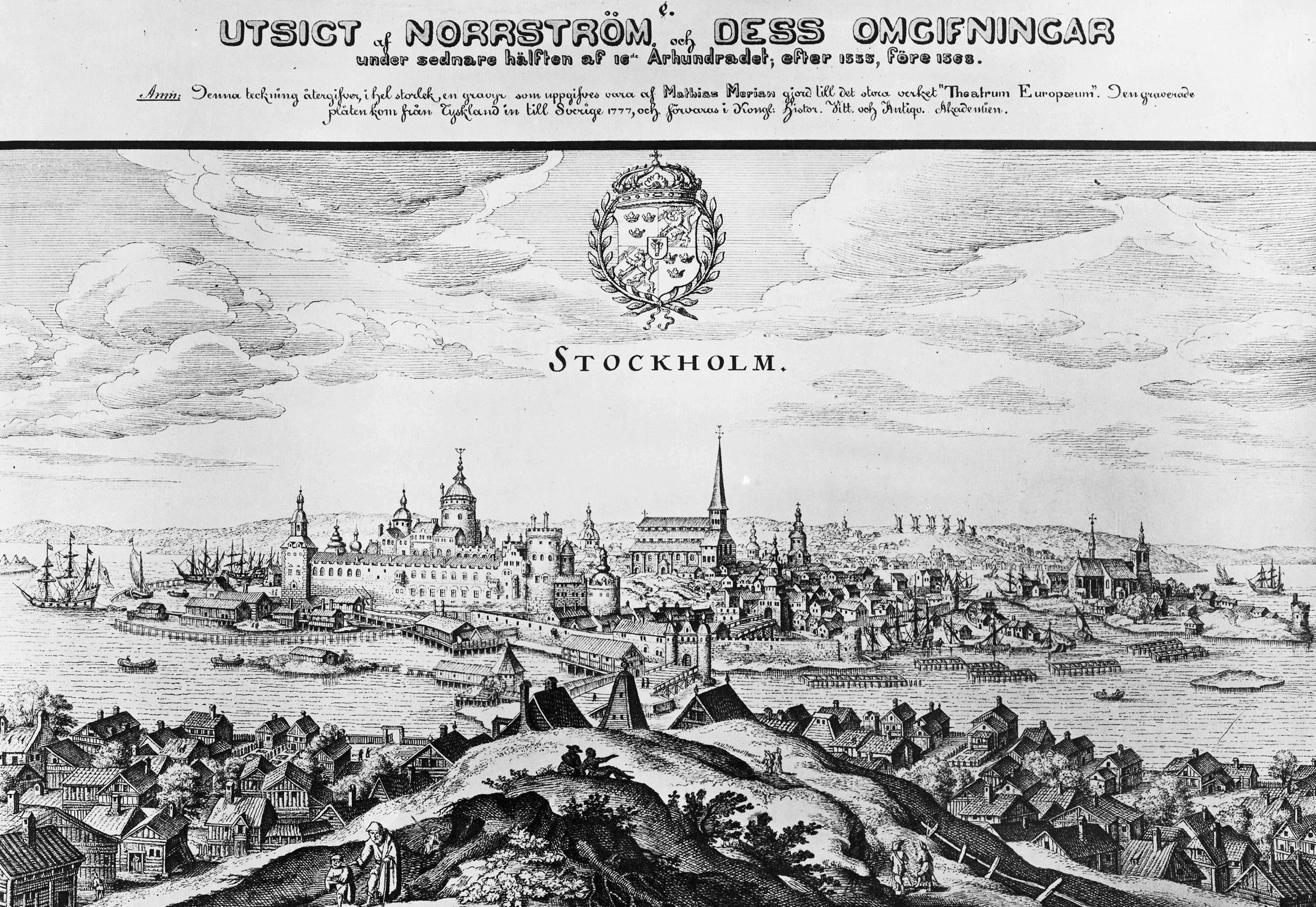 View over Stockholm from Norrström around 1560. Artist unknown.